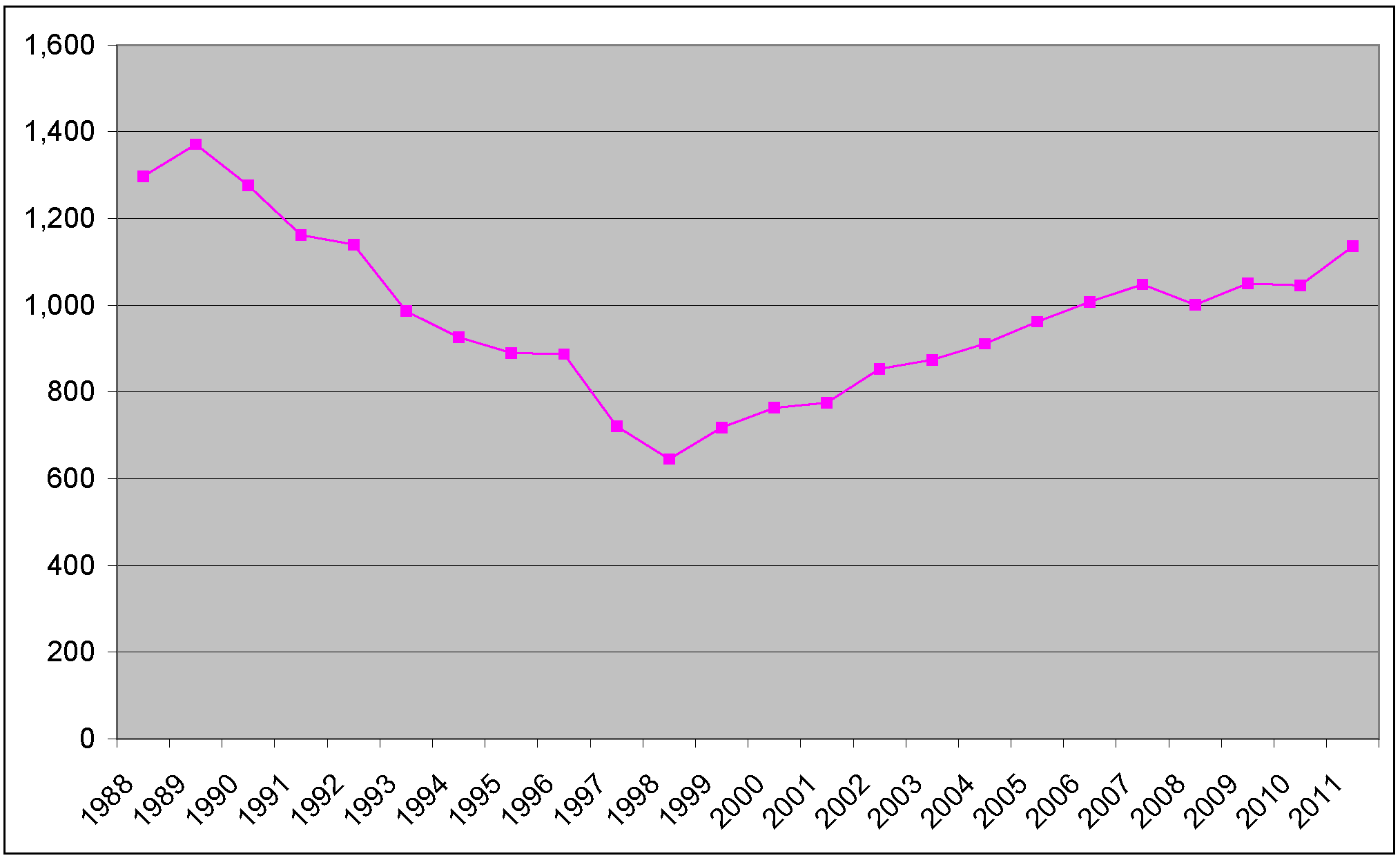 data from